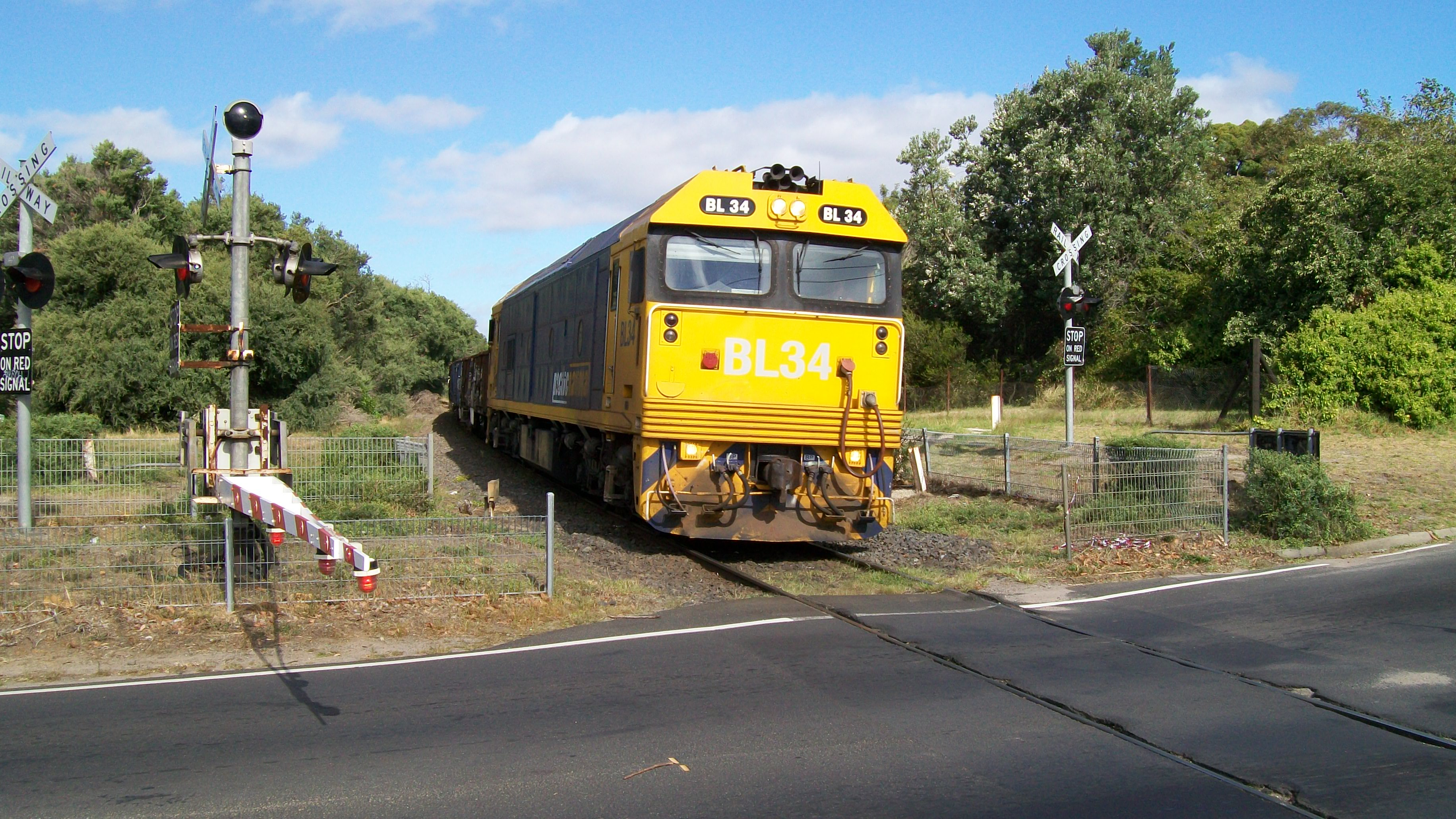 Freight train on Stony Point railway line, Melbourne. Hillcrest Road level crossing, Frankston, Victoria.